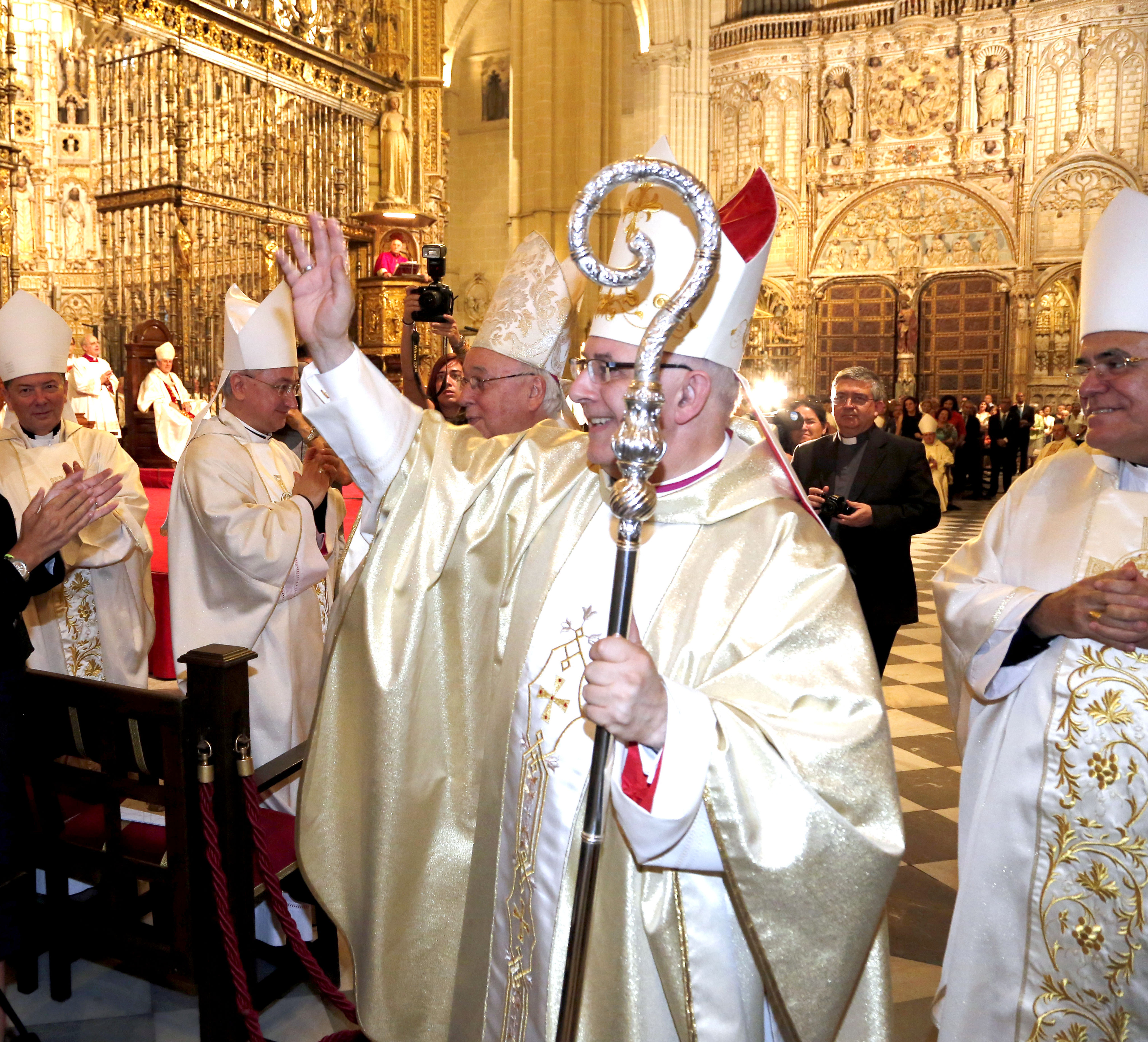 Consagración Episcopal del Obispo Auxiliar de la Archidiócesis Primada de Toledo, Ángel Fernández Collado en la catedral de Toledo. Foto Juan Echagüe/jccm